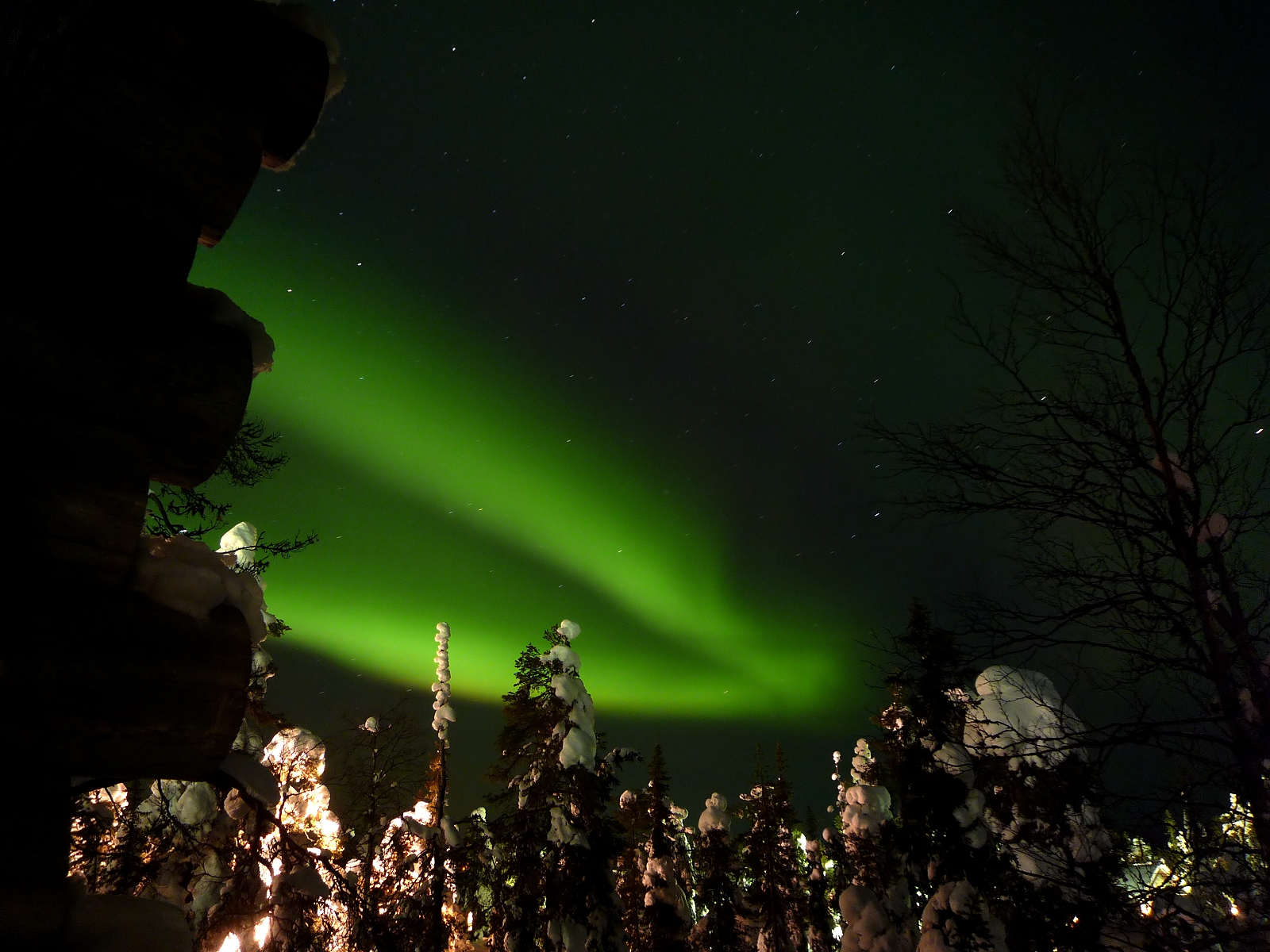 Northern lights (aurora borealis) in Ruka, Finland.